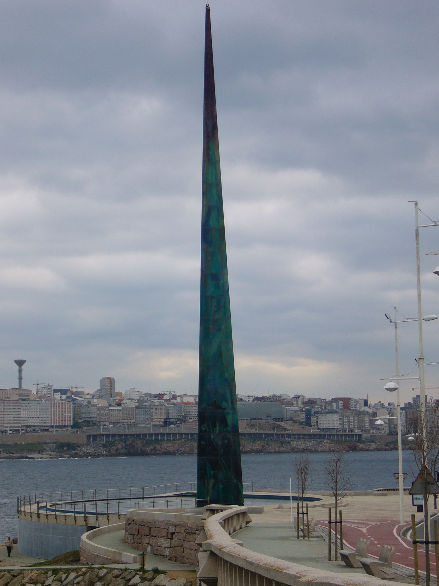 Millenium Obelisk of Corunna, Galicia, Spain